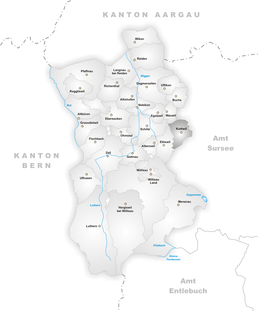 Municipality Kottwil